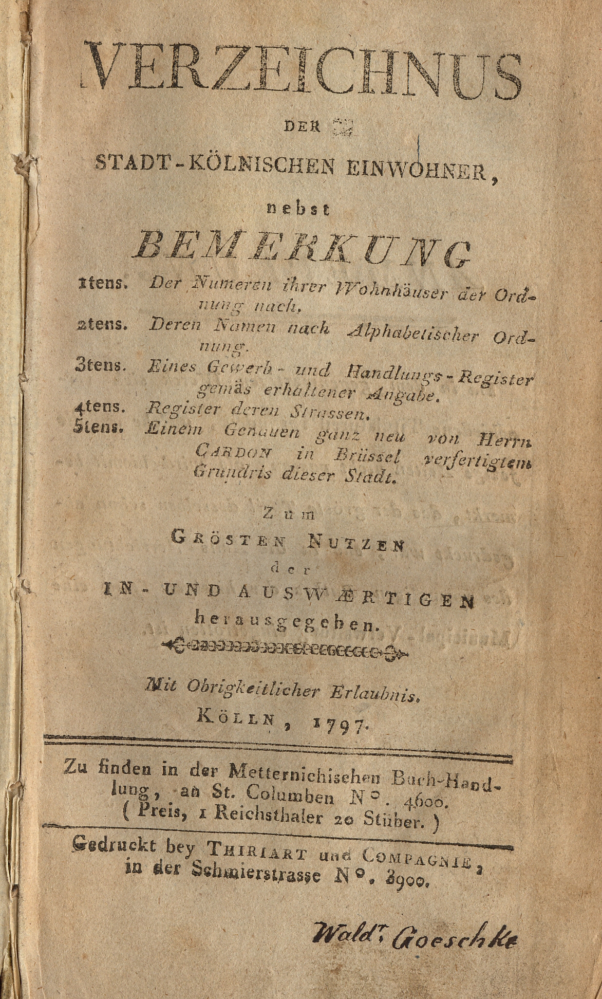 Titel 3. Adressbook Cologne 1797